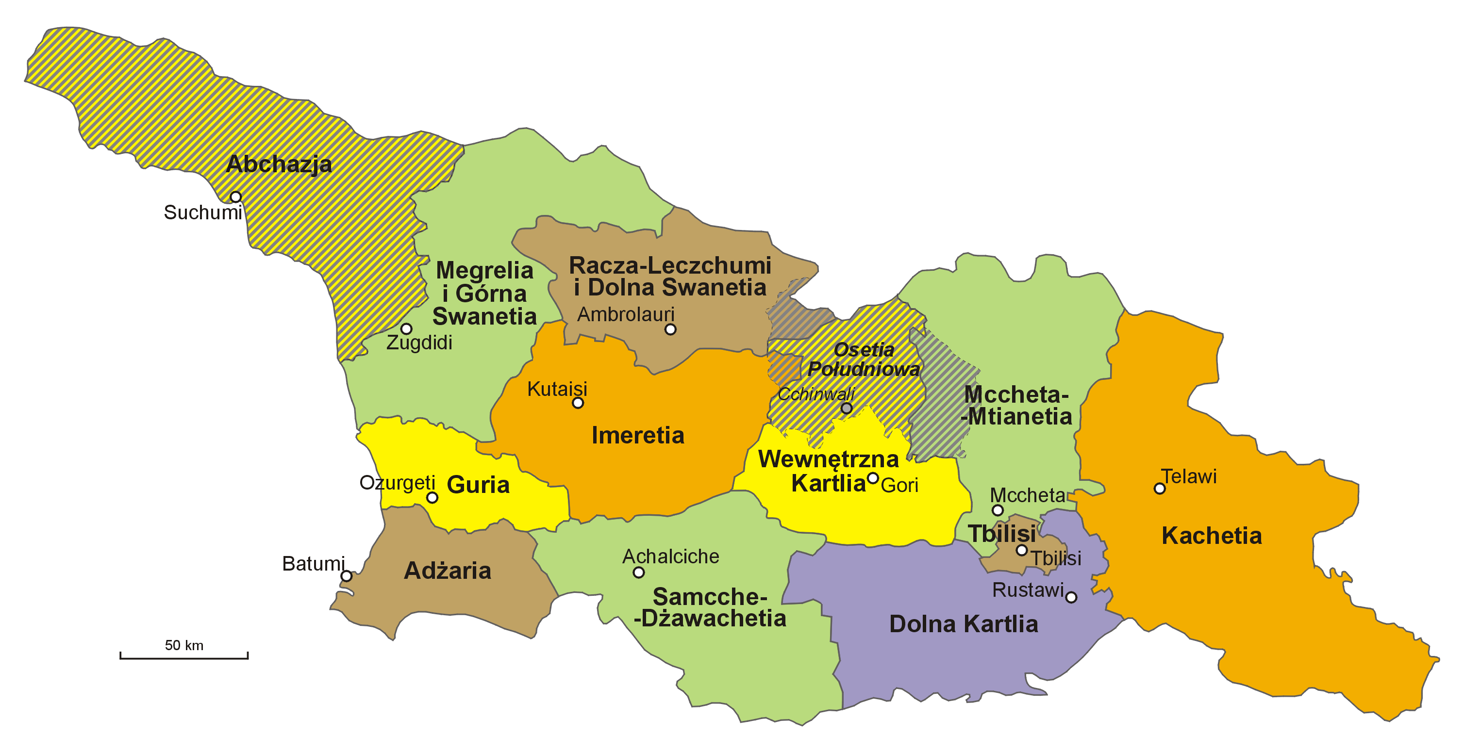 Administrative divisions of Georgia in Polish